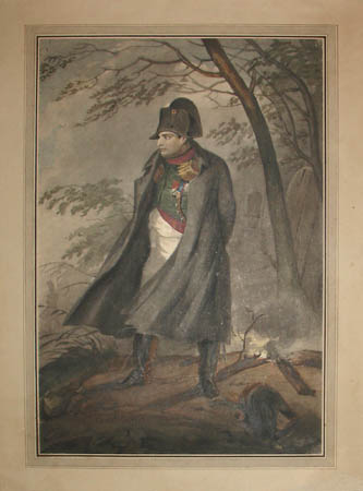 Napoleon I